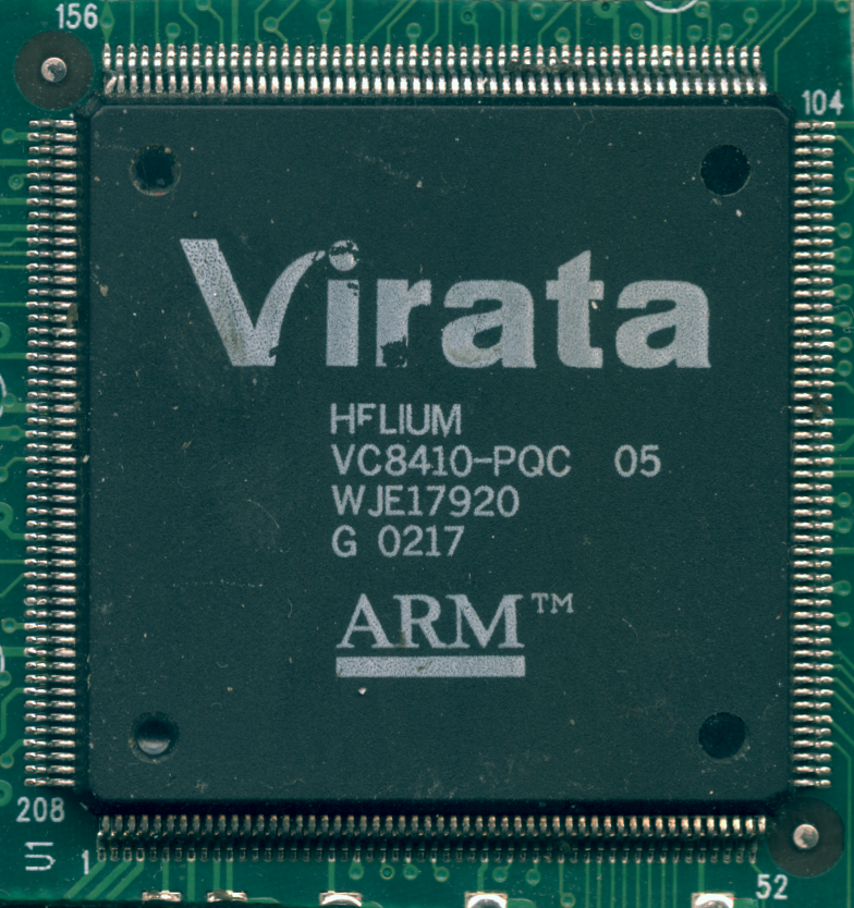 IC photo